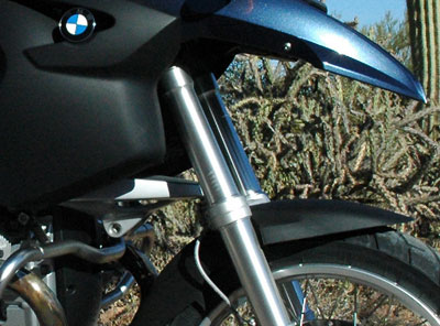 Photo © by Jeff Dean